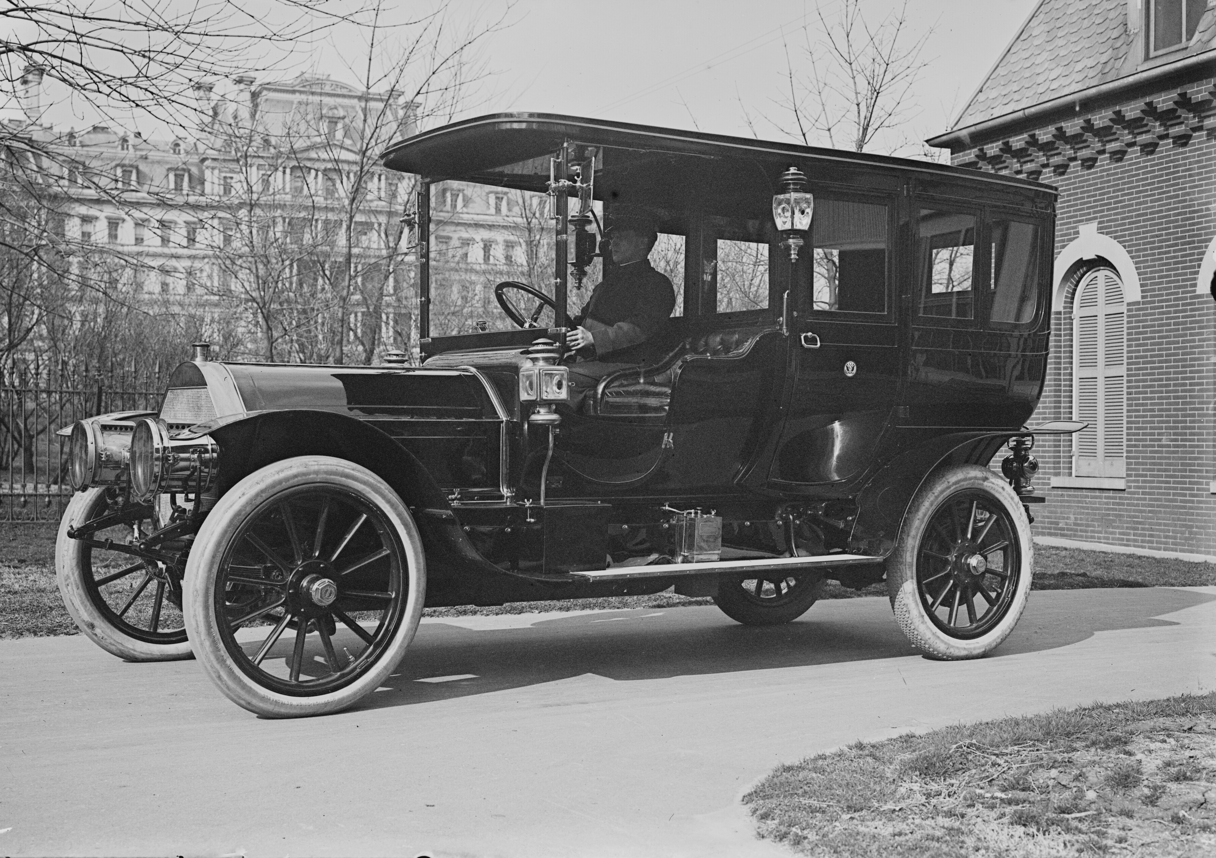 U. S. President William Howard Taft's Pierce-Arrow motor car. Gasoline powered auto with 6 cycle, 48hp, Washington, D.C.